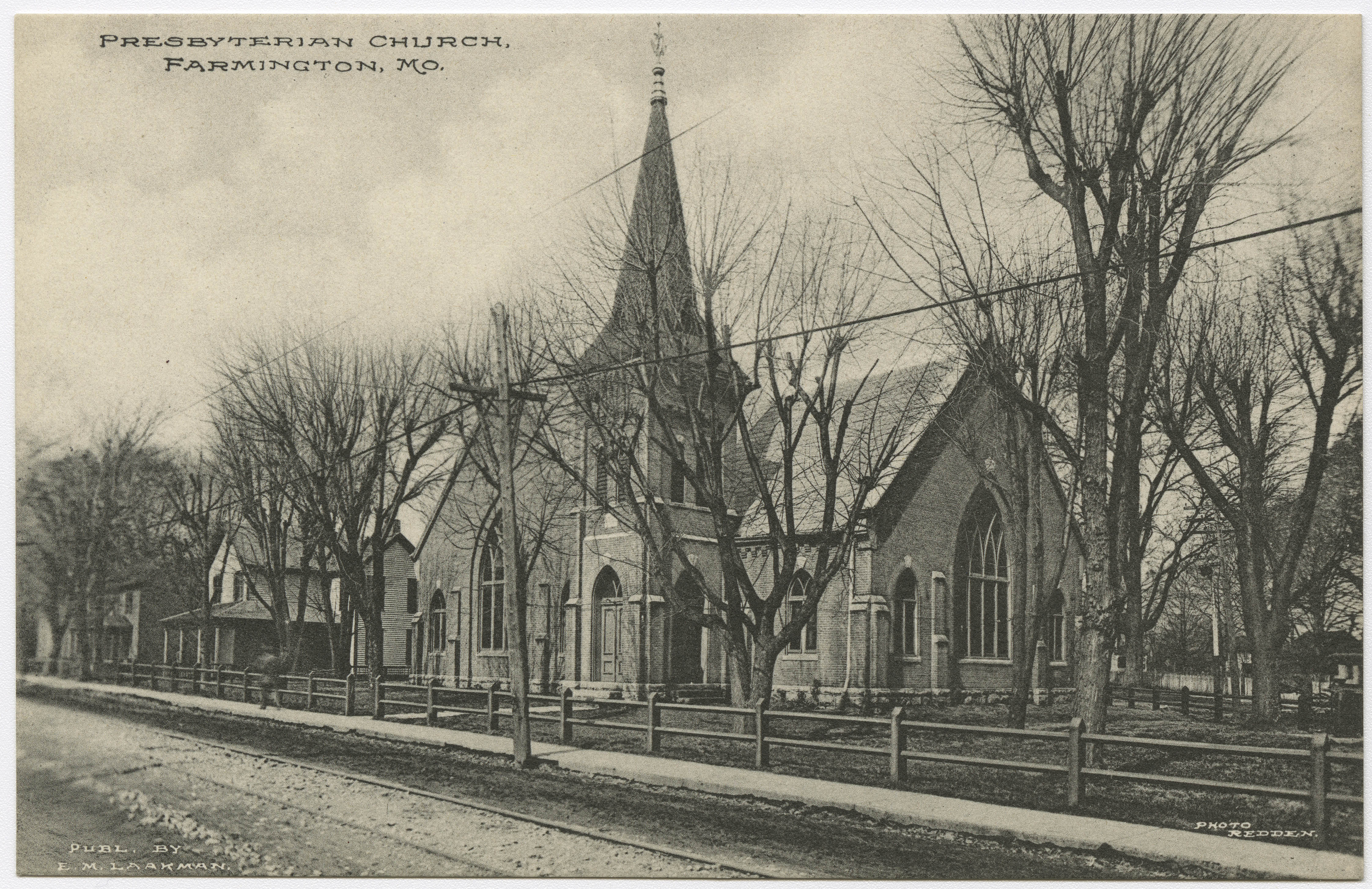 Presbyterian Church in Farmington, Missouri from a pre-1923 postcard From RG 428, Postcard Collection, Presbyterian Historical Society, Philadelphia, Pennsylvania.